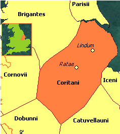 Map of the territory of the Iron Age tribe of the Coritani in Britain. This tribe is now known to have really been called the Corieltauvi.